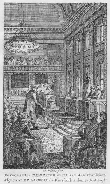 President Midderigh gives brotherhood kiss to French ambassador Delacroix, on January 22nd 1798